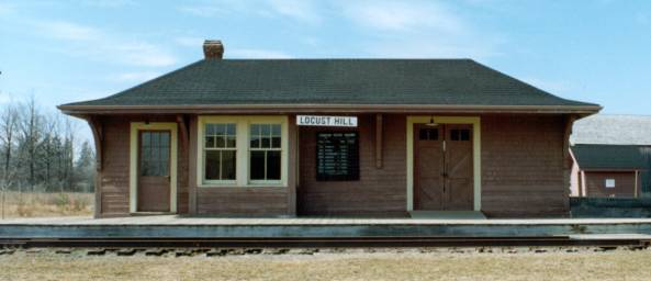 The Locust Hill Train Station (1936) at Markham Museum